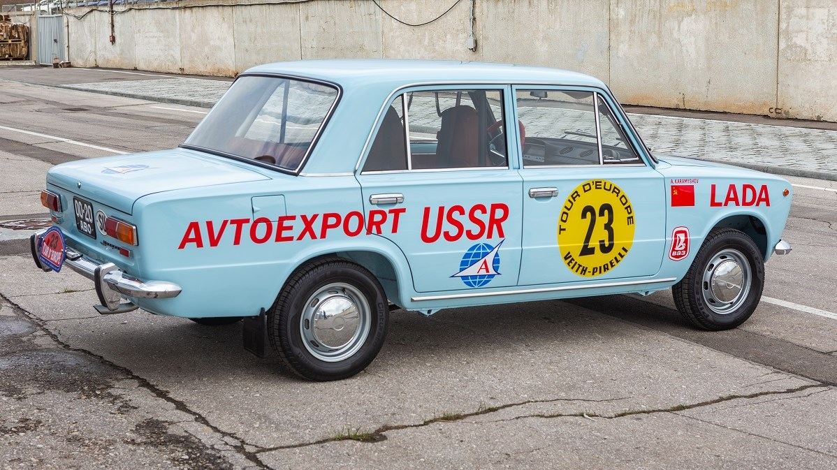 Lada VAZ 2101. ADAC Rallye Tour d'Europe 1971. Replica